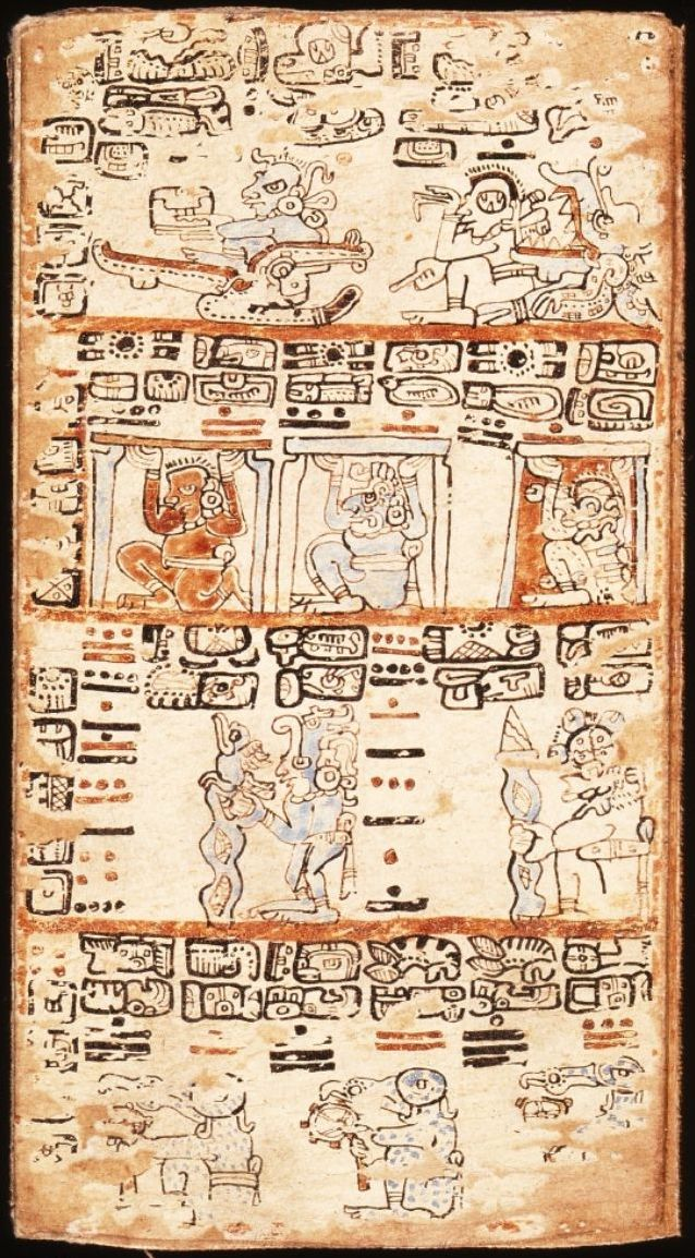 A page from the Madrid Codex, a Postclassic Maya book